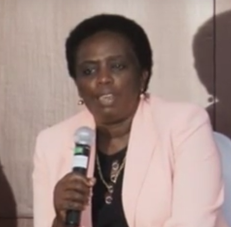 Joy Mukanyange of Rwanda in a conference in Nairobi "Constructing Political Spaces: Making Quotas Work Gender Forum". 26th September 2013 Panelists were Bintu Jalia of Uganda, Nyayang Lok of South Sudan, Sadia Musse Ahmed of Somaliland, Jeanette Ntiranyibagira of Burundi, Joy Mukanyange of Rwanda and Priscillah Nyakabi and Kenya. Chaired by Easter Achieng